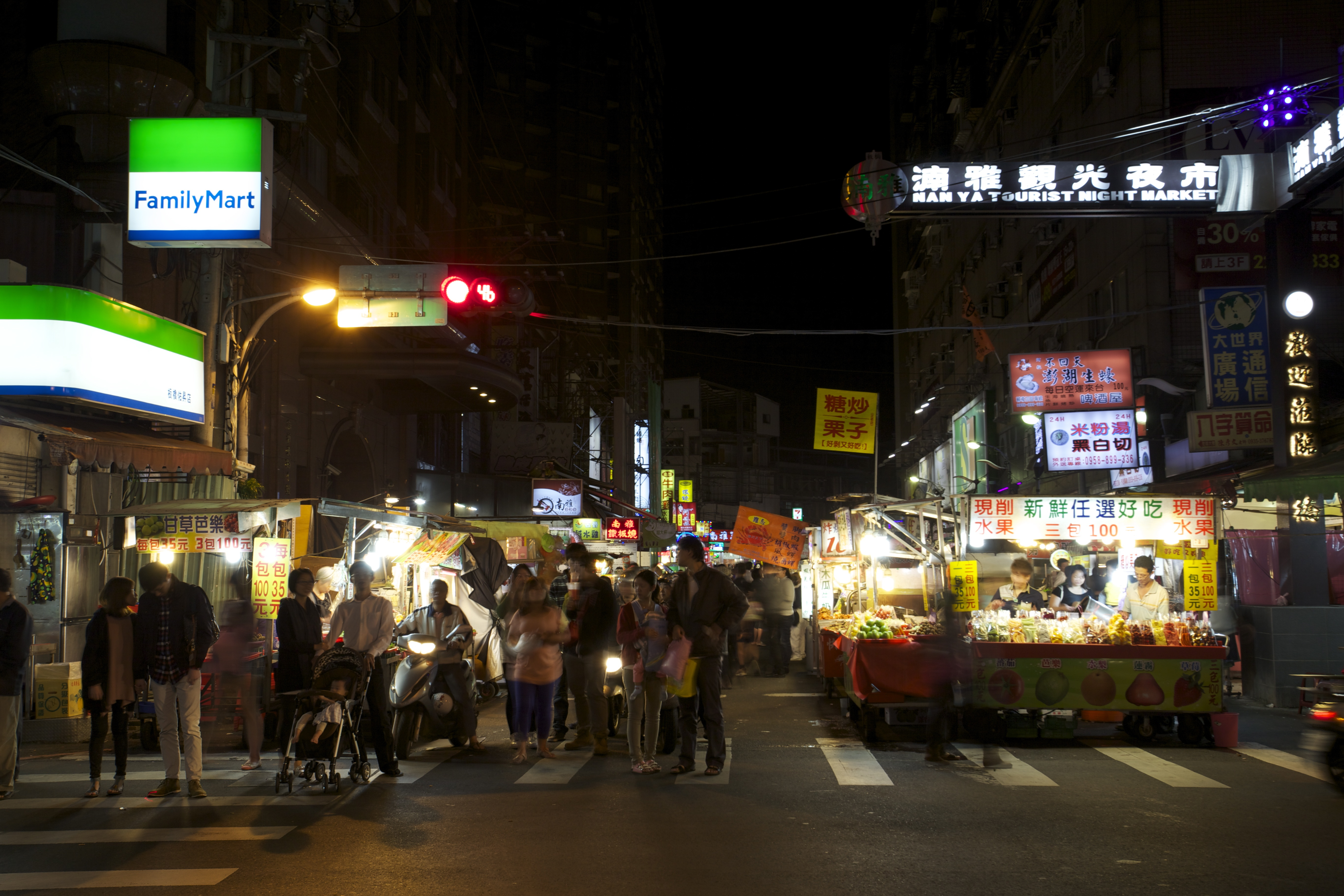 Nanya Night Market a night market in Banqiao District,New Taipei City.中文（中国大陆）: 湳雅夜市是位于新北市板桥区的夜市。中文（台灣）: 湳雅夜市是位於新北市板橋區的夜市。